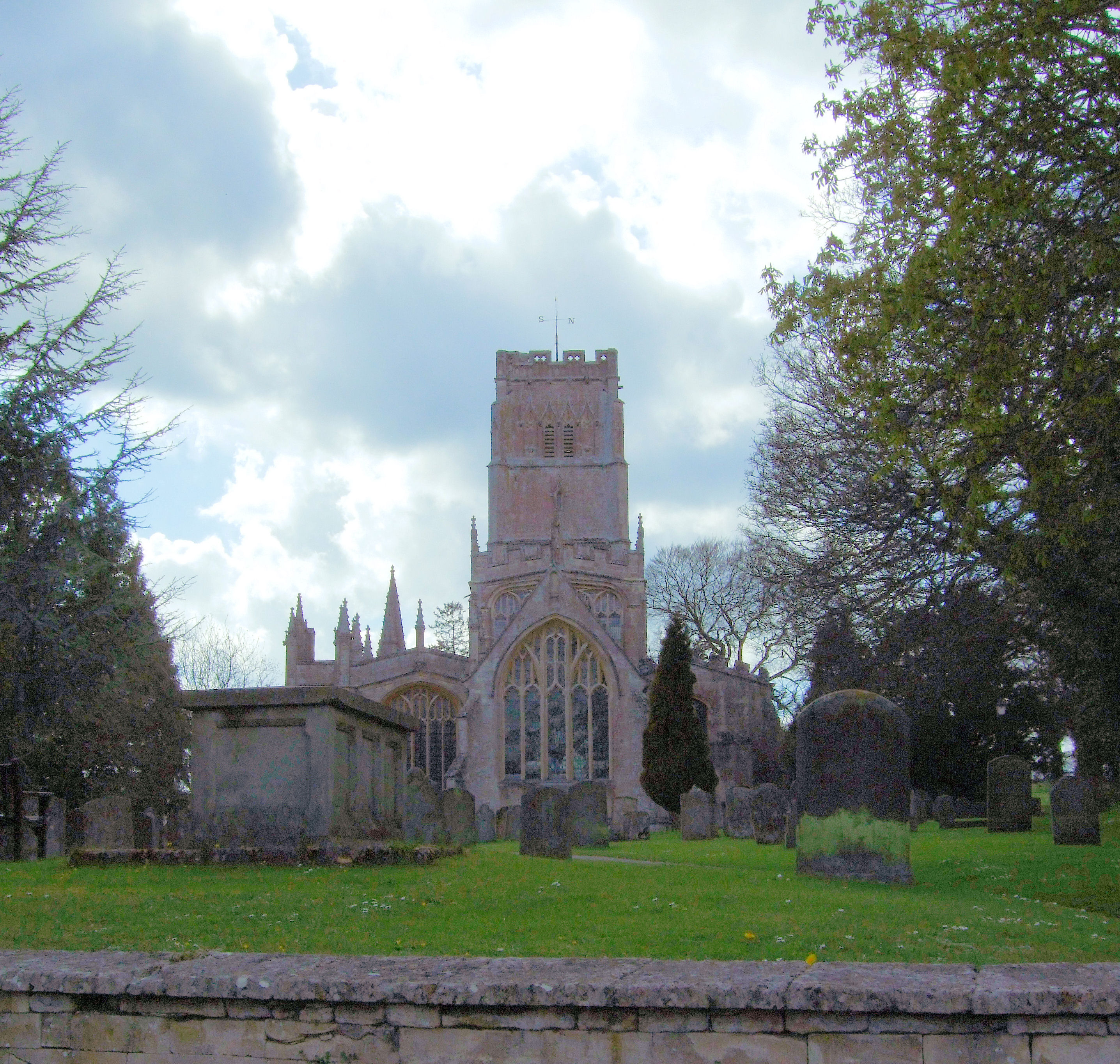 The Church of St Peter and St Paul in Northleach is known as The Cathedral of the Cotswolds. The church dates from the early 12th century, and was built on top on an earlier building, also believed to have been a church. The 12th century version was simple, consisting little more than an aisle. That the chancels were a later addition is immediately apparent from the south eastern quoins visible in the Bicknell Chapel.